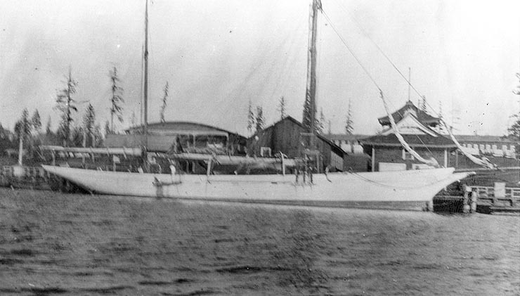 The private ketch-rigged motor schooner Anemone IV sometime prior to her United States Navy service as the patrol vessel .